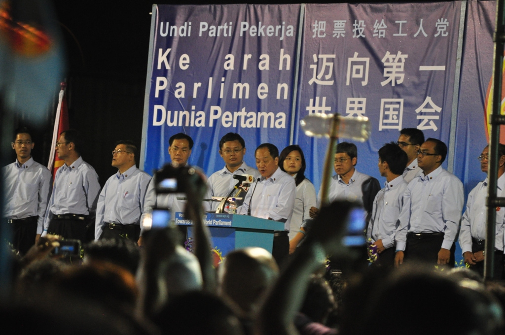 Secretary-General of the Workers' Party of Singapore Low Thia Khiang speaking at his party's rally at an open field in Sengkang bounded by Sengkang East Avenue and Sengkang East Drive for the Singaporean general election, 2011.